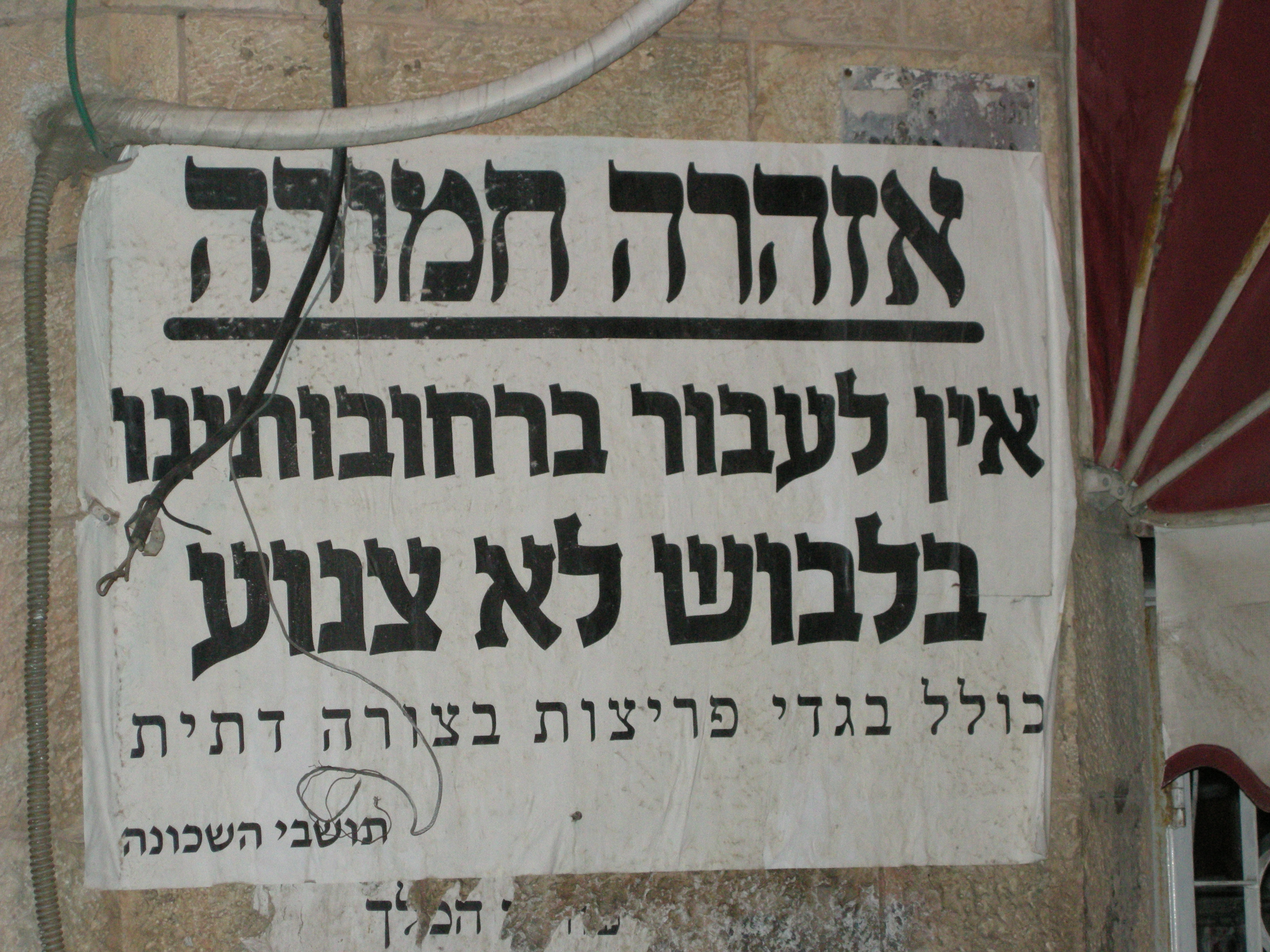 Mea Shearim